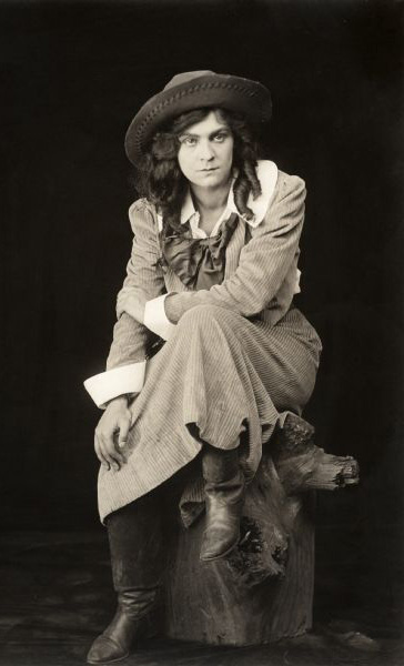 Lottie Briscoe wears a corduroy western dress, boots, and a cowboy hat in a 1914 publicity still for the Lubin silent film series The Beloved Adventurer (1914).